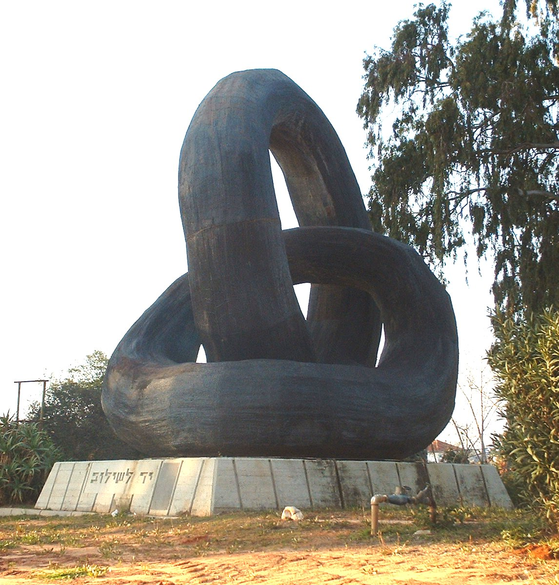 "Monument to the Link" – יד לשילוב – erected to denote the combining in 1969 of two separate local municipalities in Israel – Pardes Hanna and Karkur – into one local municipality, called "Pardes Hanna-Karkur".